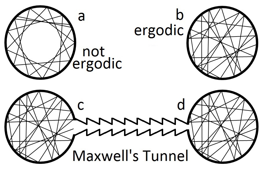 Rays bounding off a truly smooth surface (a) do not satisfy the ergodic hypotheses, as one would expect of rays under the ergodic hypothesis (b). The impossibility of creating a 'tunnel' that uses reflections to create an imbalance in the particle density between (c) and (d) is a cornerstone of classical thermodynamics.